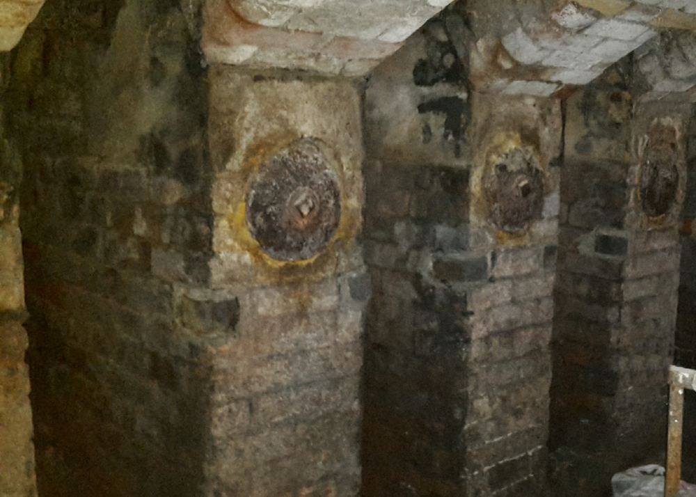 Three of the six in line crucible furnaces in the vaulted brick cellar at 51 Well Meadow Street Sheffield